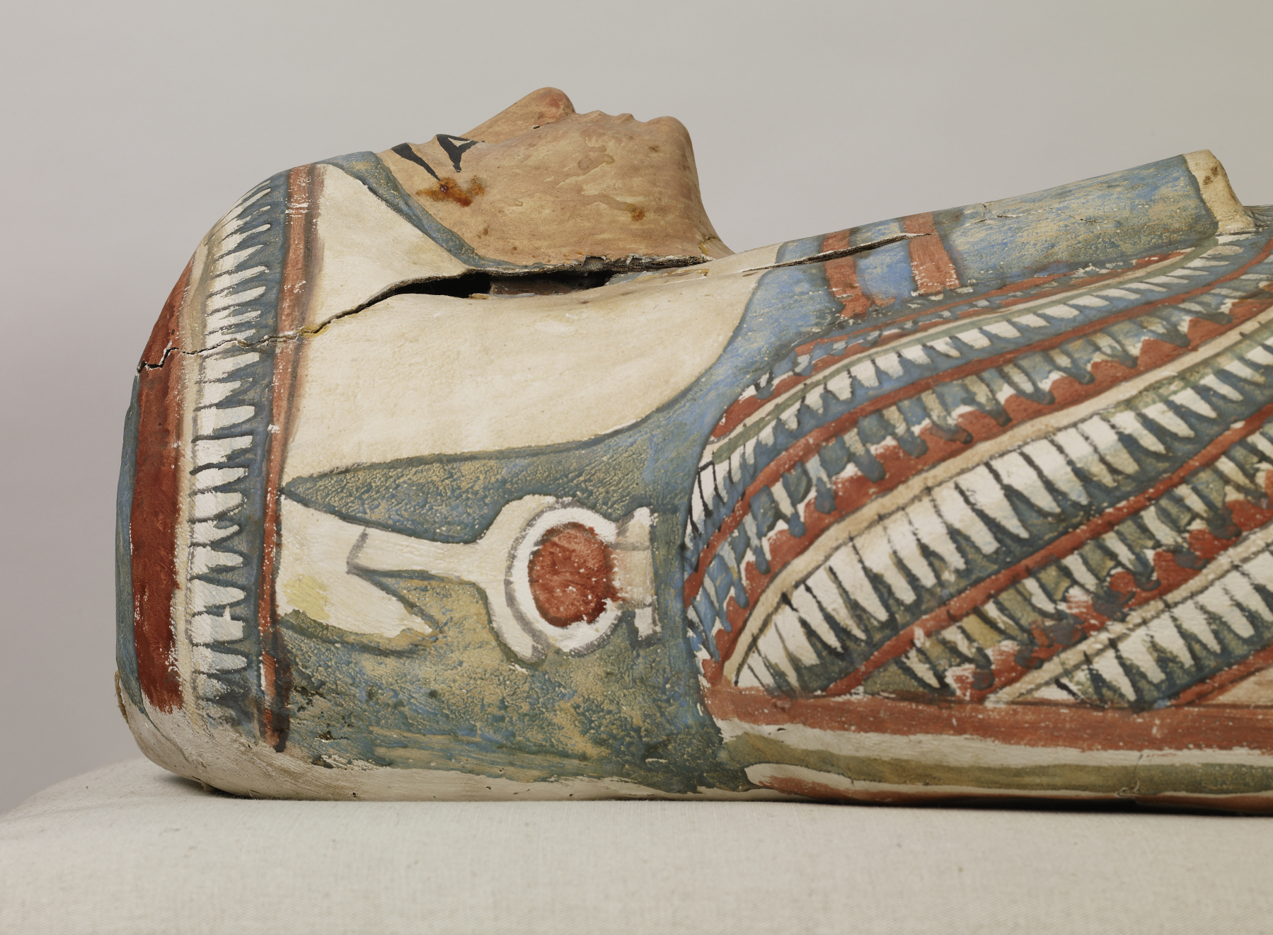 Mummification preserved mortal remains in order to house the Ka, or life force of the individual, as it needed to return to the body to find sustenance. The human-shaped covering, called "cartonnage," is composed of layers of linen and plaster. Its painted decoration includes the floral wreath on the wig, a broad collar, and a winged scarab beetle. Five additional registers of decoration show the protective four sons of Horus, the sacred boat of the funerary-deity Sokar, a mummy of Osiris on a funerary bed, a divine falcon god, and a short hieroglyphic text with an offering formula. See the additional media for a facial reconstruction of the mummy, courtesy of Michael Brassell, as well as a color reconstruction of the cartonnage.